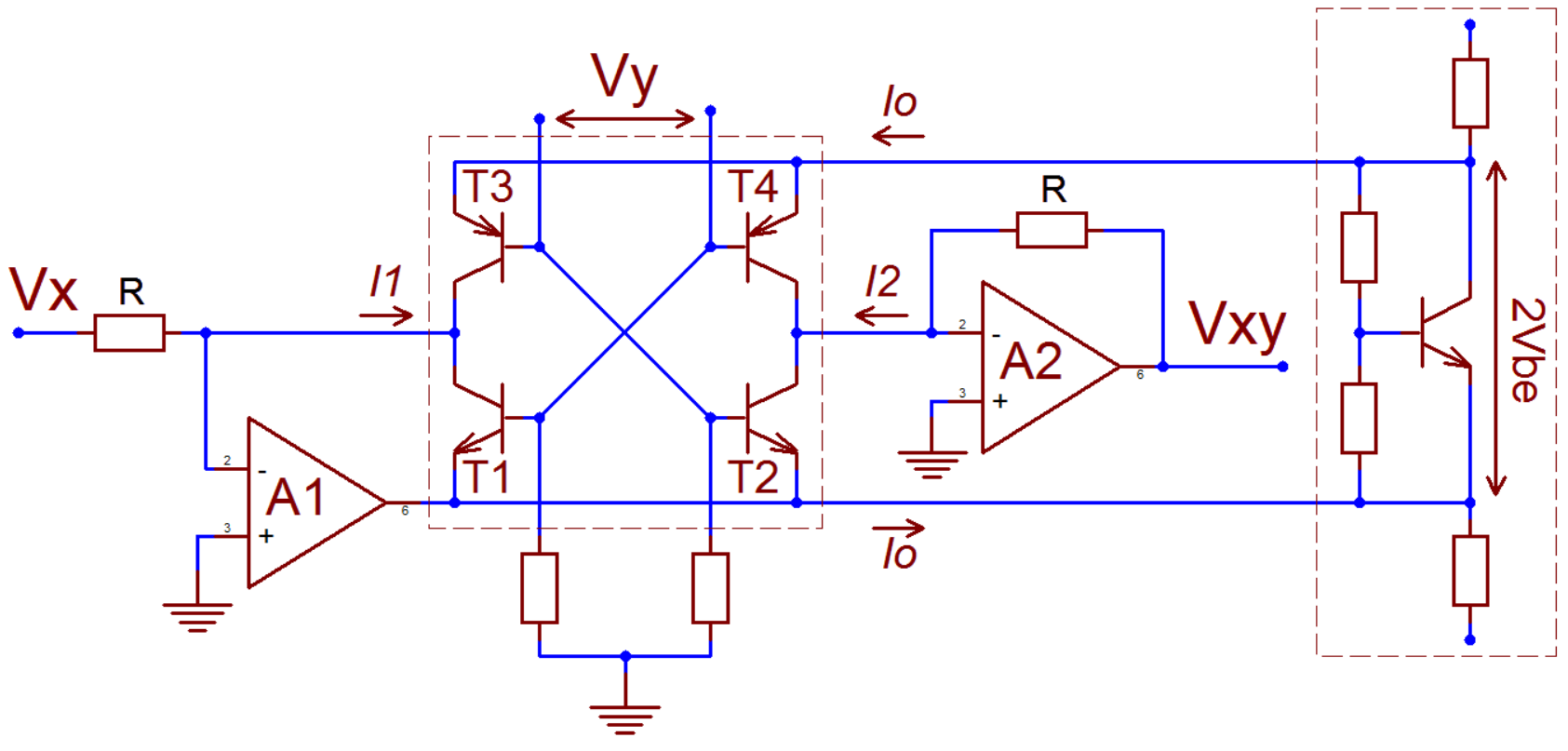 The (very simplified) Blackmer gain cell - core of dbx noise reduction and other dbx, Inc. designs. - with simplified biasing network on the right